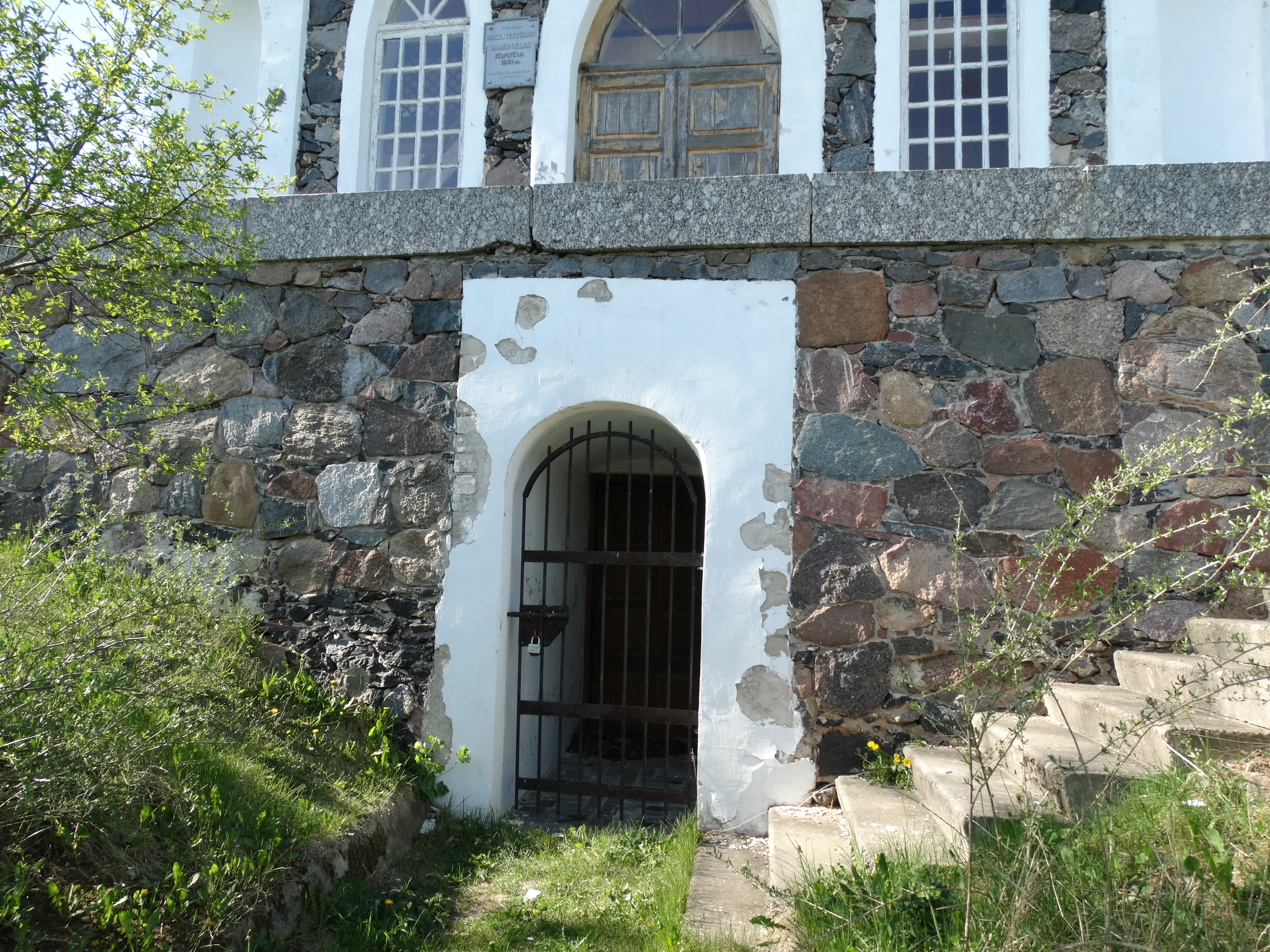 Chapel in Rodai, Panevėžys District, Lithuania